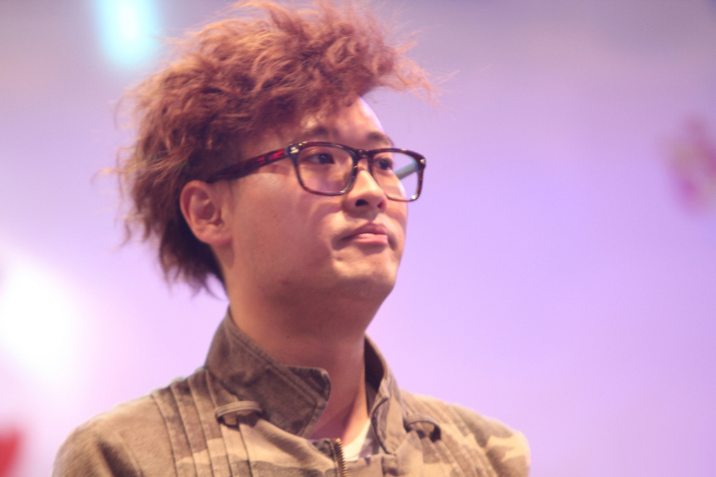 Eluphant performing at the Hip Hop Guerilla Concert for the Global Etiquette Campaign in Hongdae on June 18, 2011.